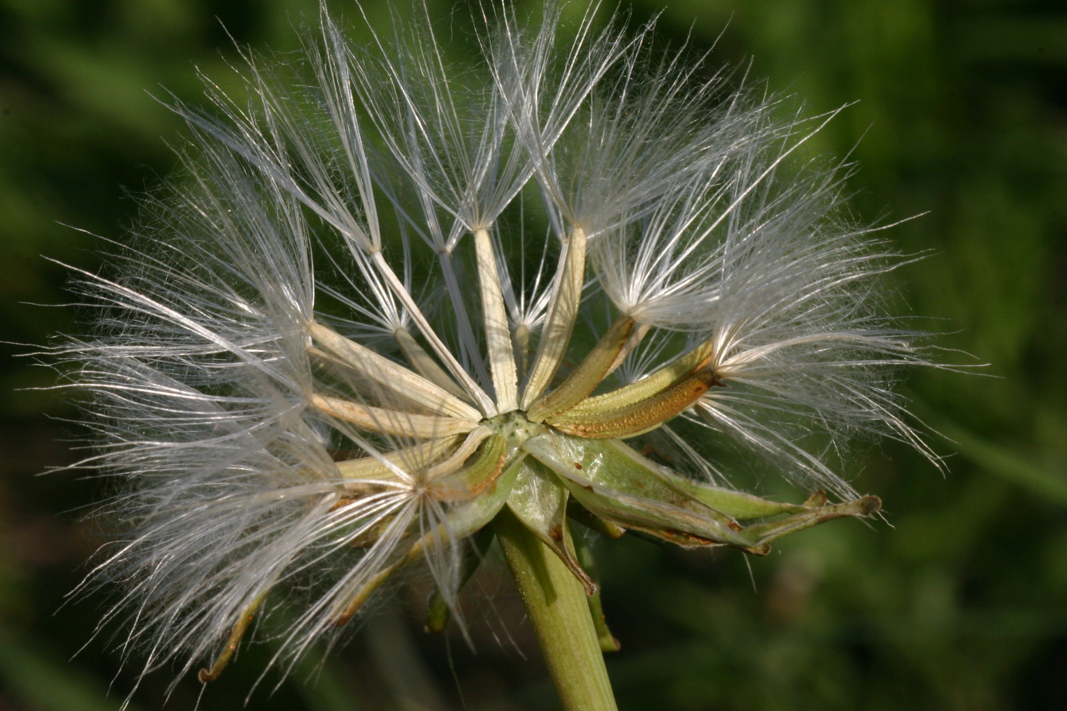 Scorzonera austriaca